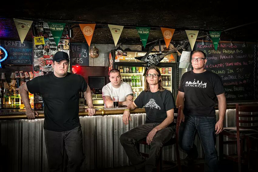 Contra (Band) Group photo in 2016, Akron Ohio.